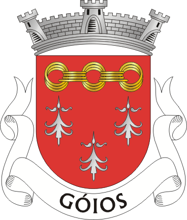 Crest of Góios, a parish in the municipality of Barcelos (Portugal)